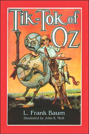 Cover of Tiki-Tok of Oz